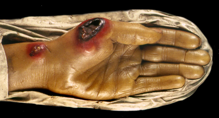 M-550.10749 Hand exhibiting anthrax lesions, early 20th century ; Title: Wax no. 66, Hand; Anthrax. Maker: Maison Tramond. Place: Paris, France. Period: Early 20th century. Historical Collections Division ; National Museum of Health and Medicine ; Washington, DC ; [Photograph of a model from the collection. Posted 08-27-2010.] ref M-550,10749